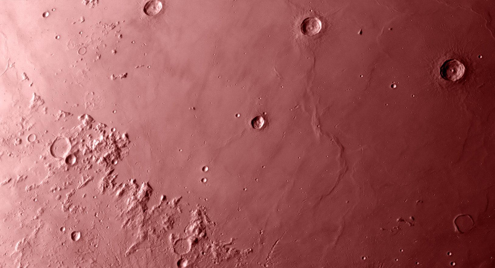 Sea of Rains, on the Moon. Infrared image in L band centred on 3.75 micrometres. Taken with the SIRCA camera by M. Gålfalk, G. Olofsson, and H.-G. Florén. Nordic Optical Telescope, Stockholm Observatory. More images can be found here.